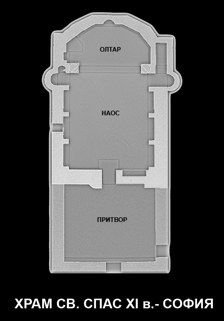 Sofia church St Spas ХІc Plan